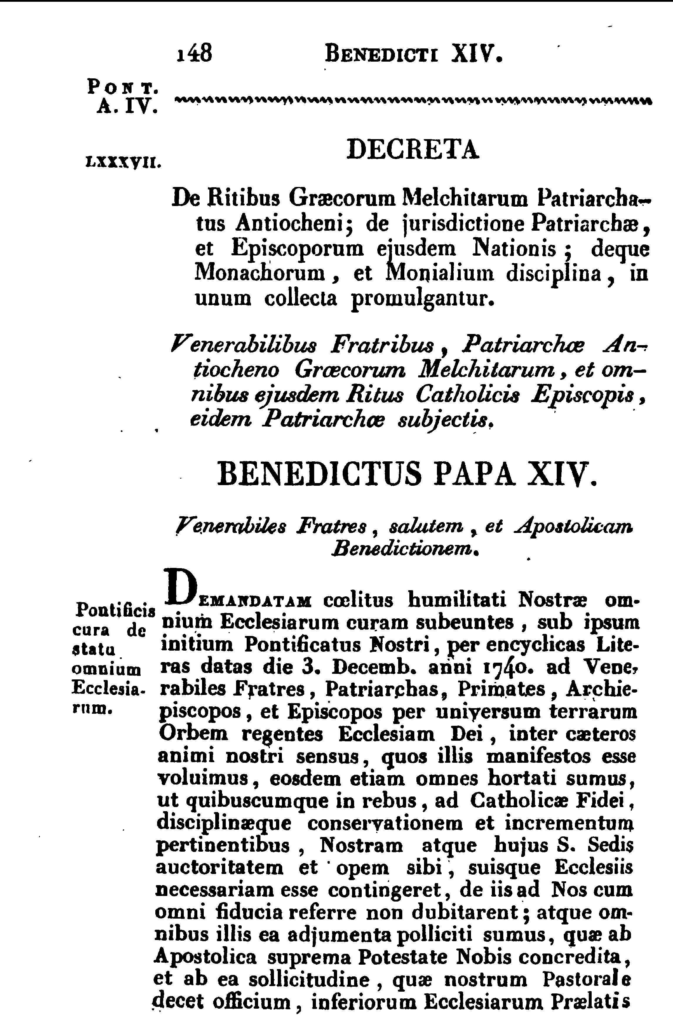 Fist page of a 1828 print of Pope Benedictus XIV Encyclical "Demandatam" (1743) about the preservation of the Byzantine Rite in the Melkite Greek Catholic Church